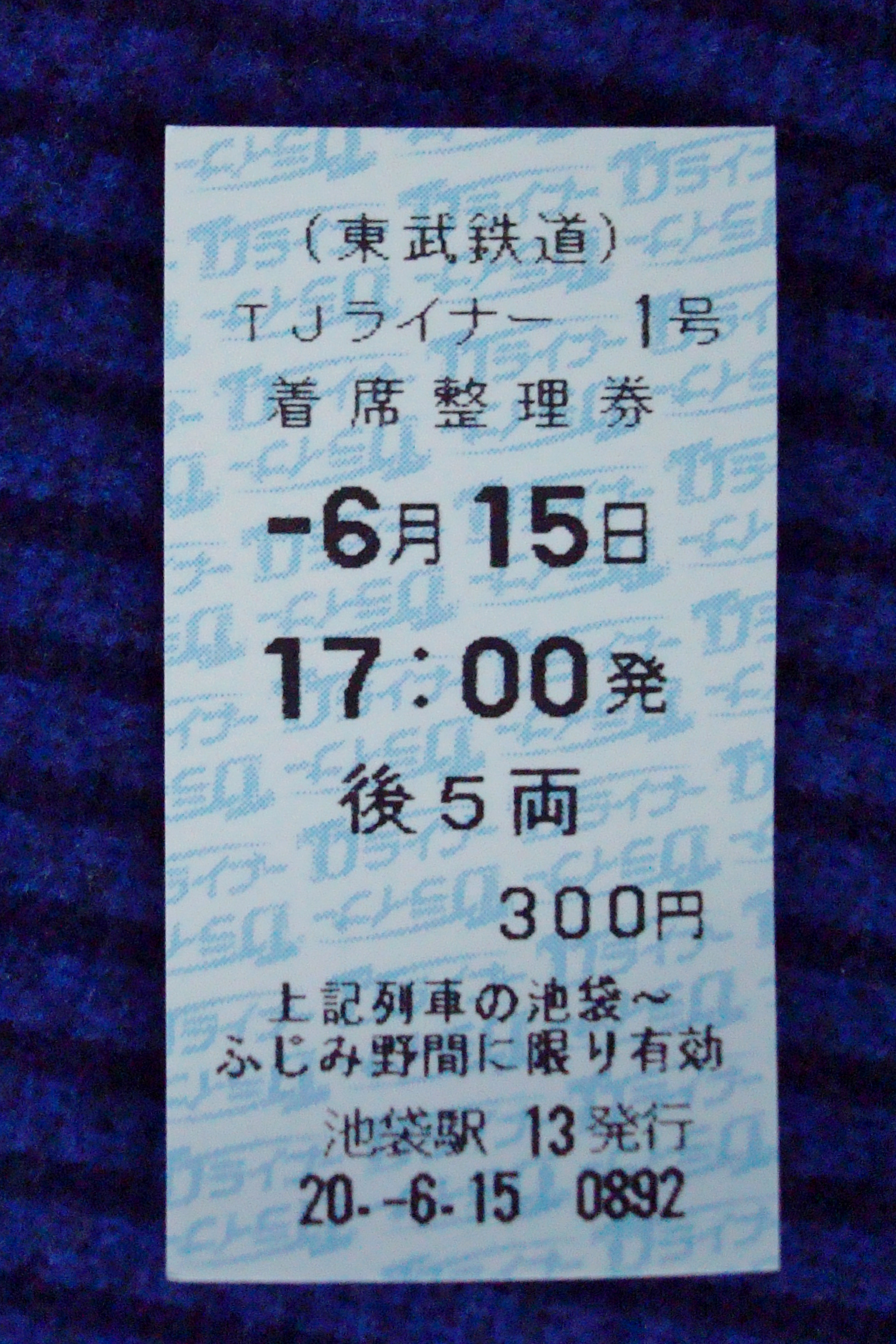 A supplementary fare ticket for the Tobu Tojo Line TJ Liner No. 1 service (before the introduction of QR Codes)